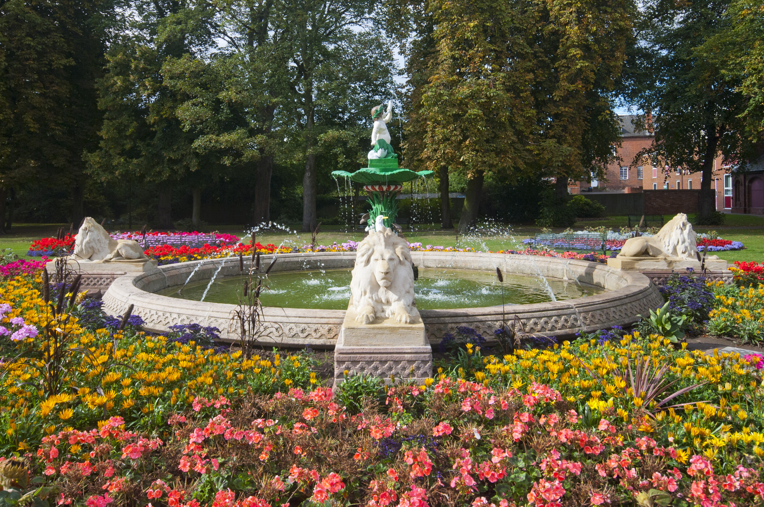 Chancellor Law's Fountain, Beacon Park, Lichfield. After restoration in 2011